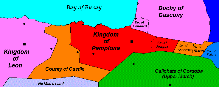 Author: Sugaar Source: Sorauren, Mikel. Historia de Navarra, el estado vasco. 1998. Pamiela ed. ISBN 84-7681-299-X Legend: Domains of Sancho the Great of Pamplona. Red: Kingdom of Pamplona Orange: In personal union with Pamplona Pink: Under Pamplonese influence (and linked by family ties) Blue shades: French domains Green: Caliphate of Cordoba (later Taifa of Zaragoza) Dots: main cities